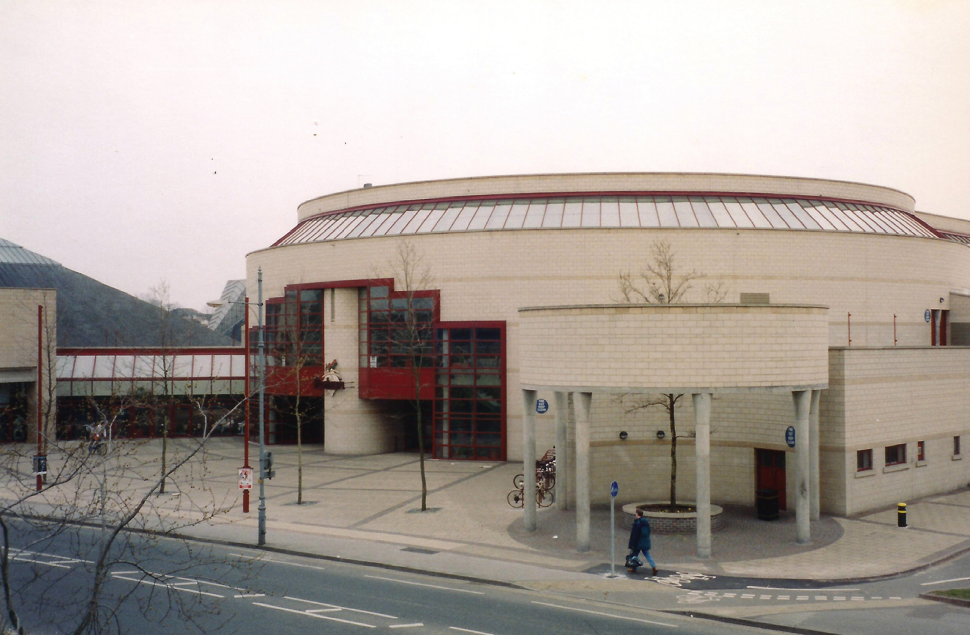 Barbican Centre, York, c.1989, from the City Walls in Fawcett Street.